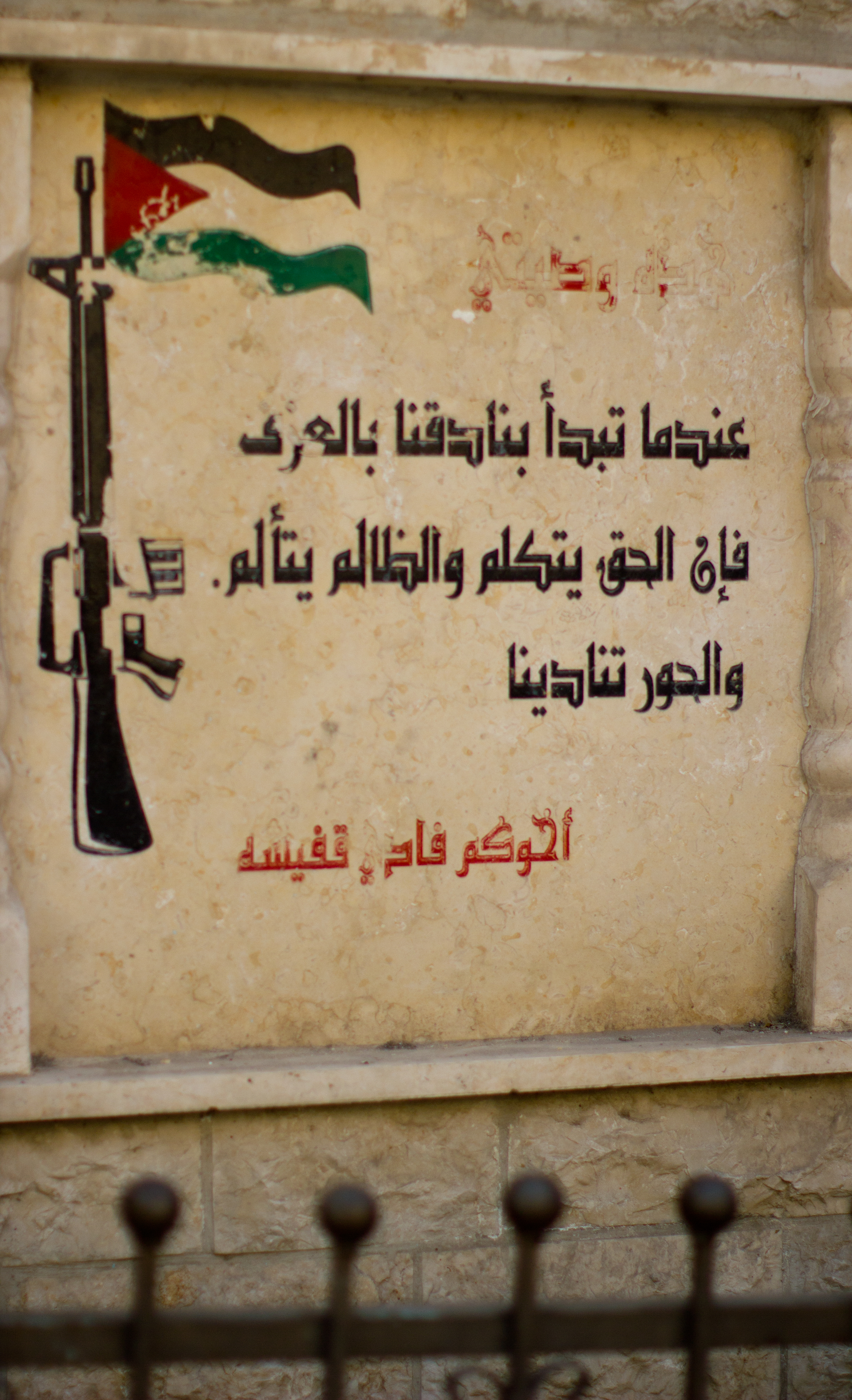 Nablus M16 flag memorial in memory of Fadi Kifisha.